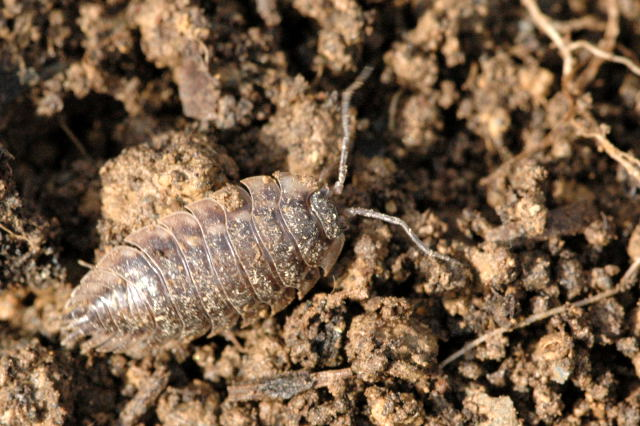 Picture taken in Commanster, Belgian High Ardennes . Species: Oniscus asellus